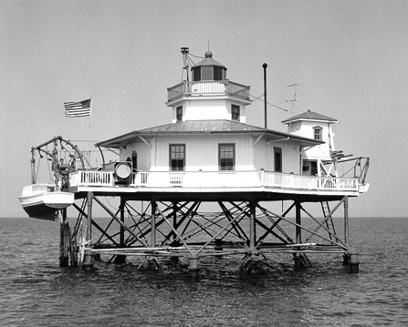 Undated United States Coast Guard photograph of York Spit Light